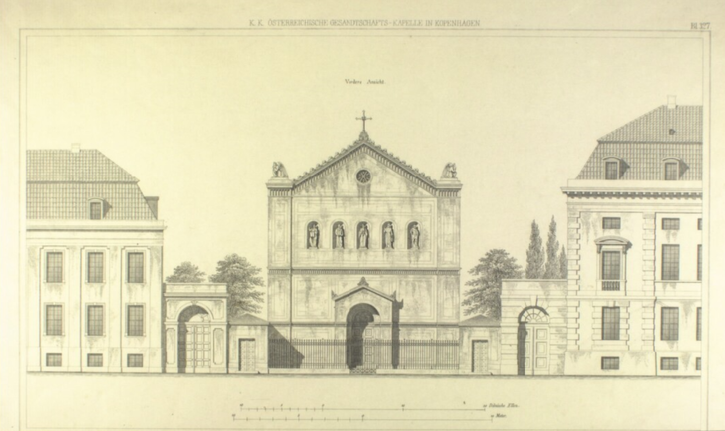 Snakt Ansgar Kirke in Bredgade in Copenhagen, Denmark